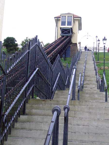 Southend Cliff Railway Original description: Southend Cliff Railway Western Esplanade